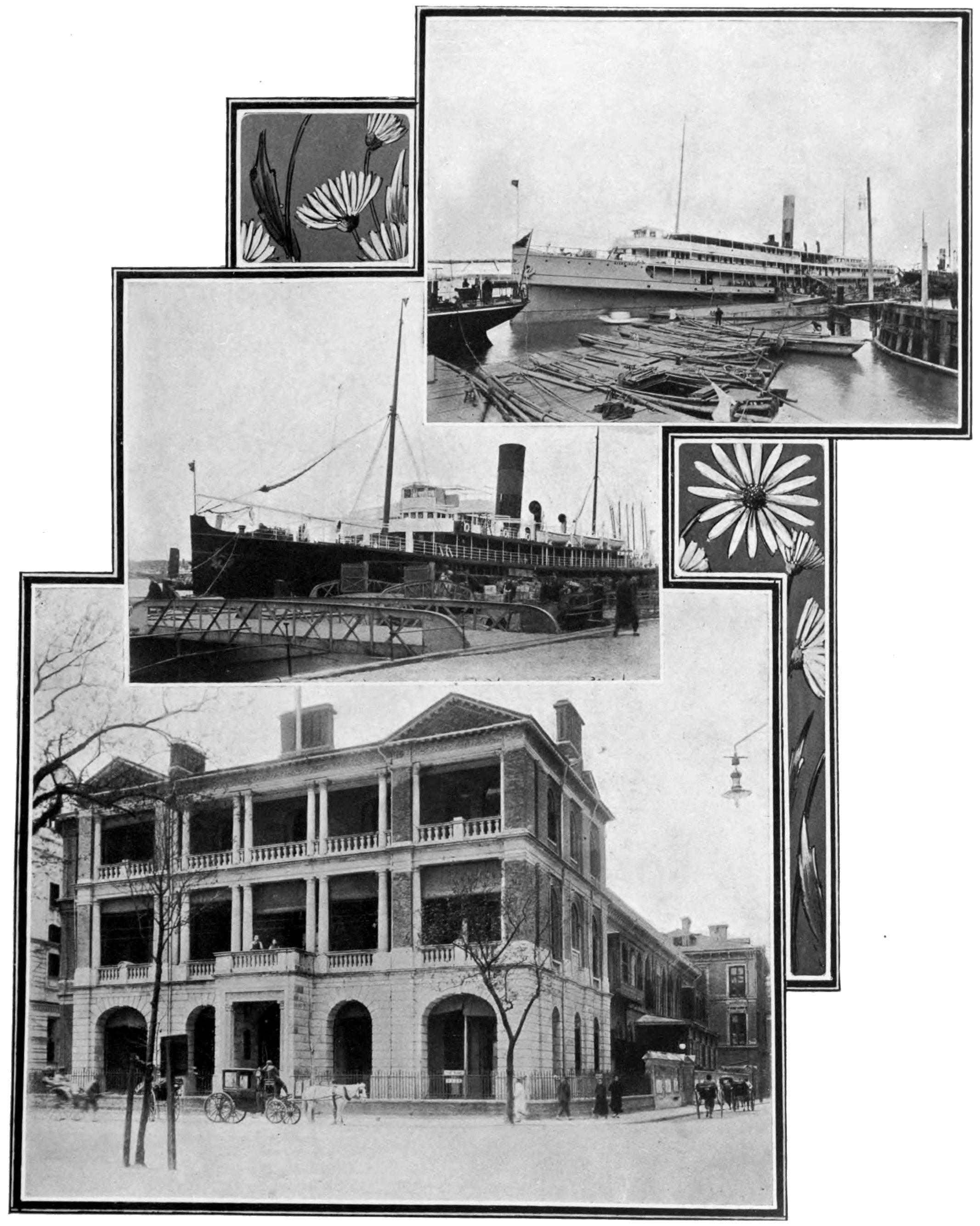 china merchants steam navigation co